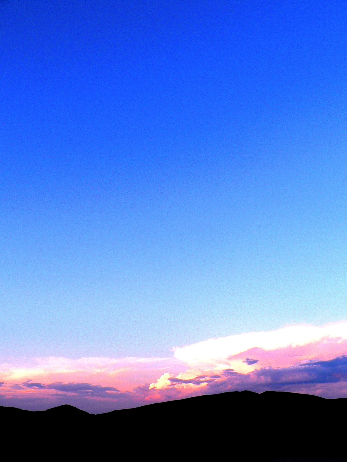 This media shows a South African Protected Site with SAHRA file reference 9/2/066/0001.